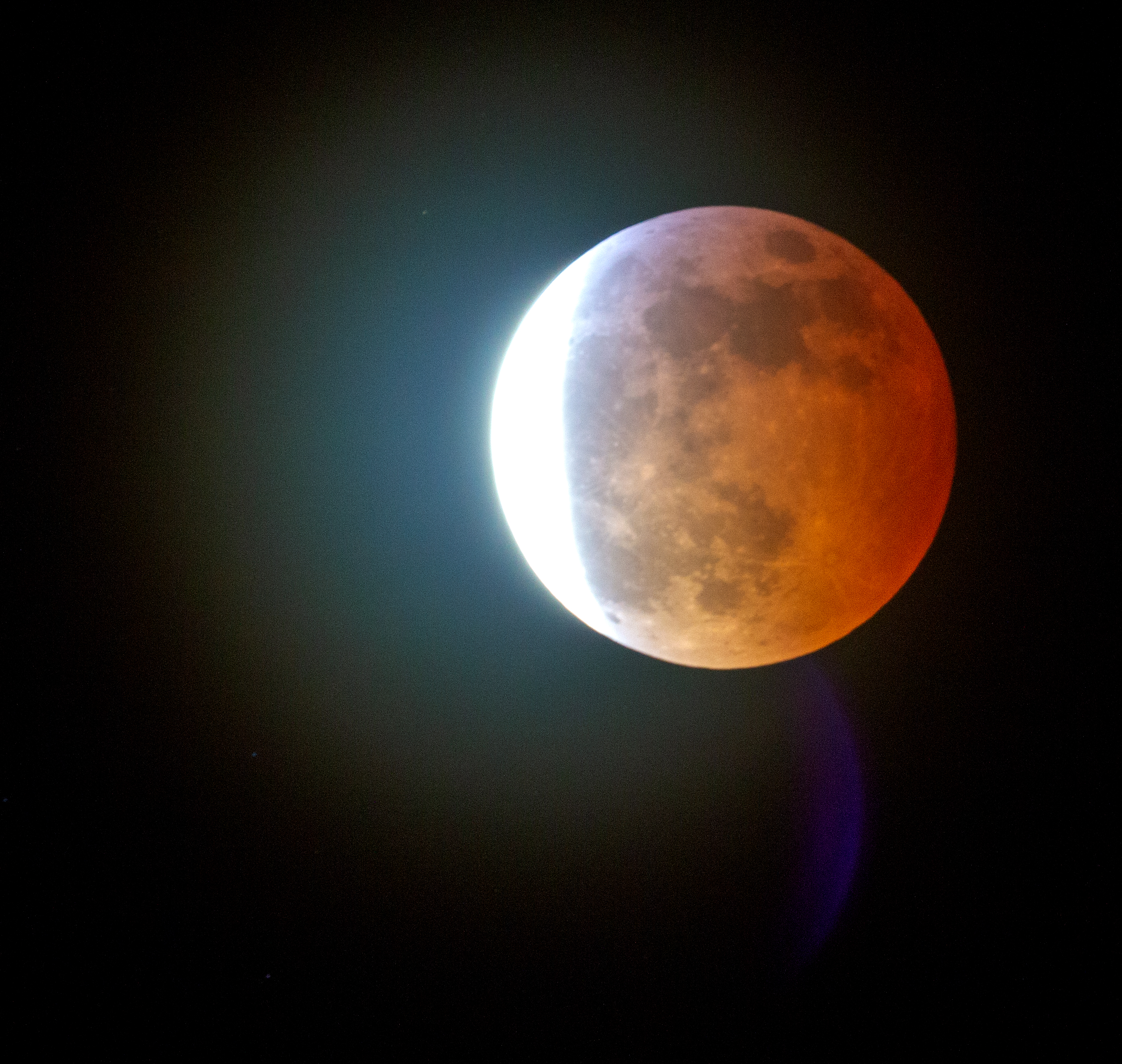 The Blood Moon 2019 as seen in in Kelowna BC Canada, 2019-01-20.